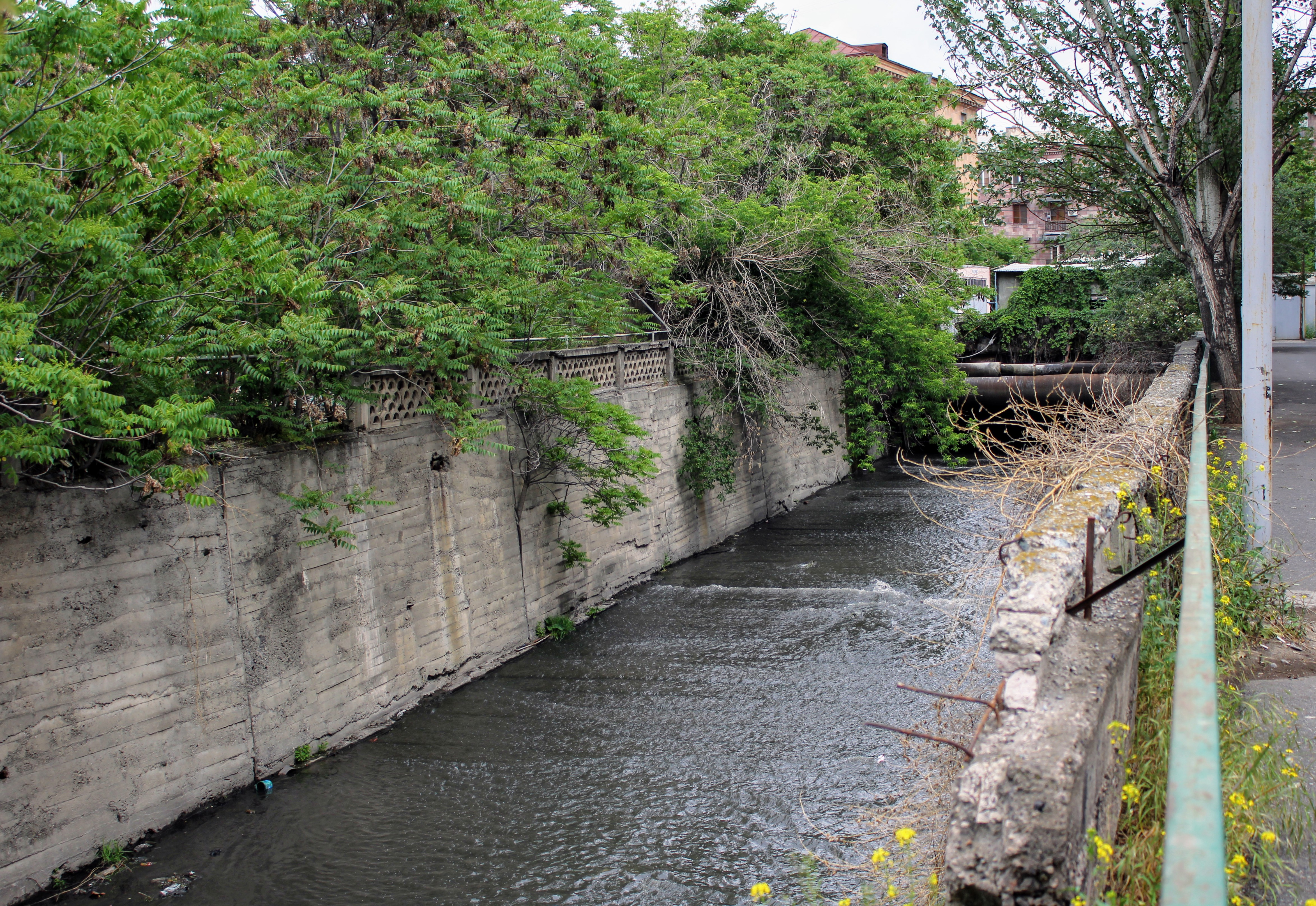 Getar River, Shengavit District, Yerevan, Armenia